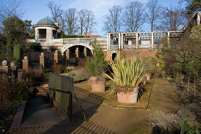 The Hill Garden Part of Lord Leverhume's estate, the Hill Garden behind Inverforth house is open to the public. It was designed by Thomas Mawson in the early 1900's and was purchased by London County Council in 1959.